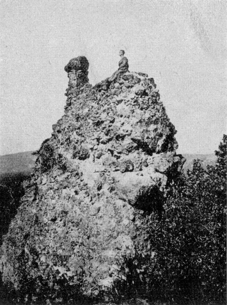 Thirring Rocks in Dobogó-kő.